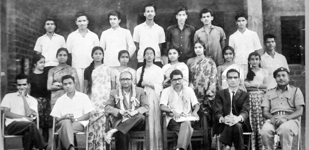 Farewell day Photo of Dr. Chandrashekara Kambara